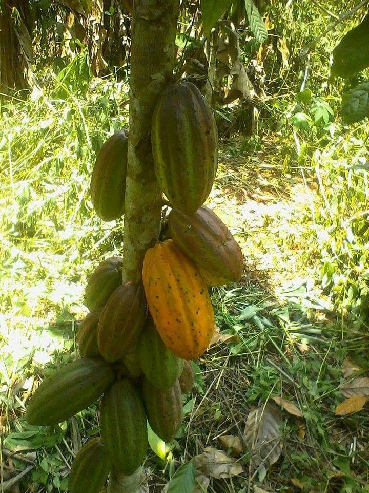 Cocoa tree in Ngoulmakong, East Region, Cameroon